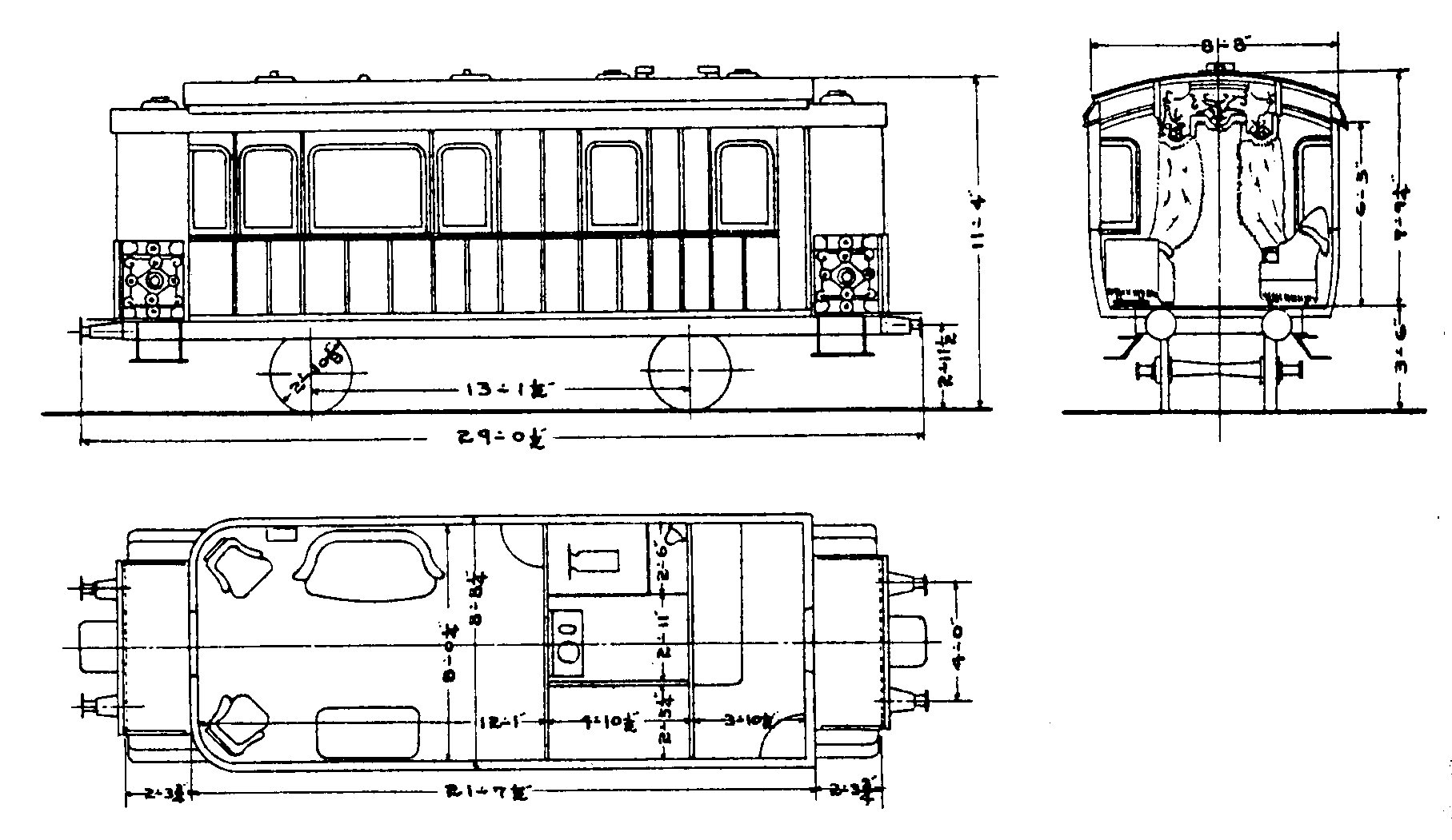 Type drawing of JGR's Imperial Car (Goryosha) No.2 (1st)